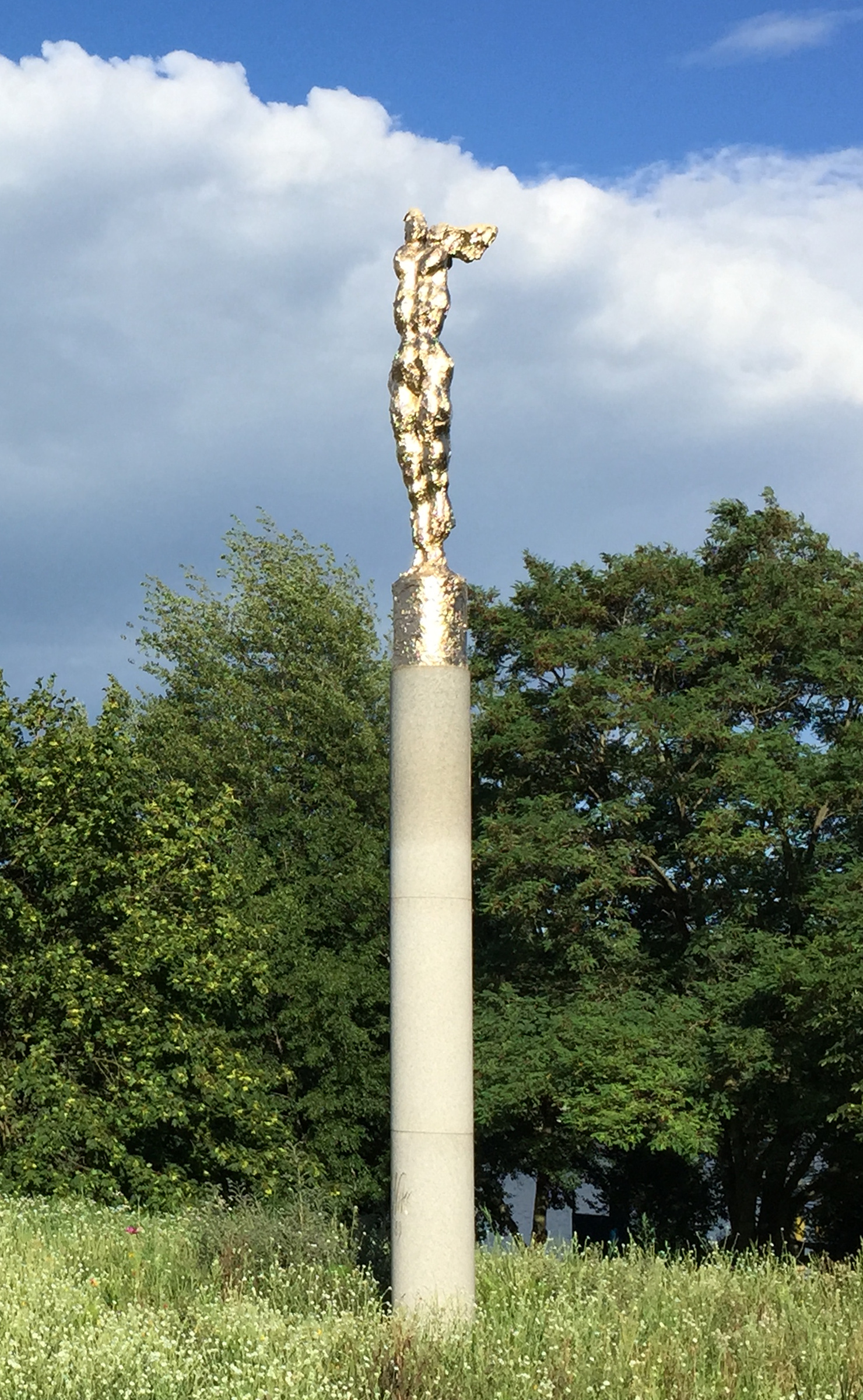 Sculpture “Nike ’89” near Glienicke Bridge, symbol for victory and peace.